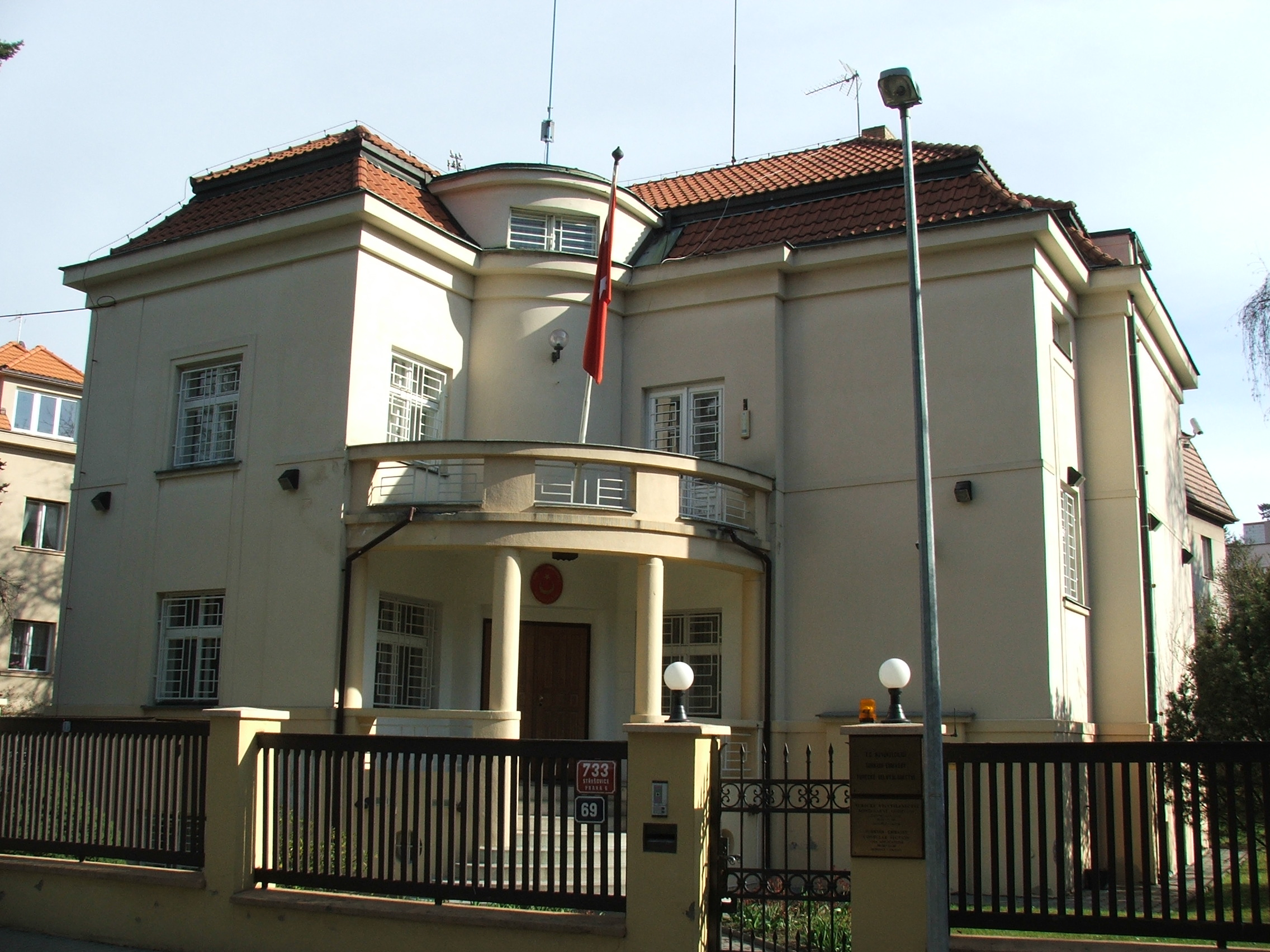 Consular Section of the Embassy of Turkey in Prague - Střešovice, Czechia.